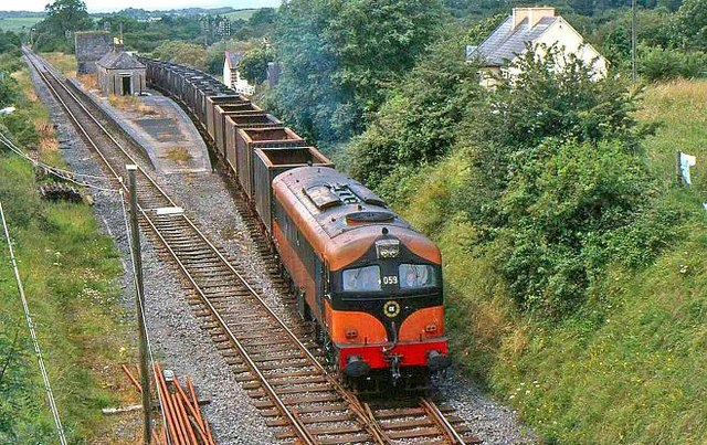 Manulla Junction Original description: The Asahi liner train (3 of 11) See G2317 : The Asahi liner train (2 of 11). Passing the closed station at Manulla Jct. The station opened in 1868 and is the junction of the Ballina line with the Dublin – Westport line. It closed in 1963. The passenger service was restored in 1988. Continue to M3474 : The Asahi liner train (4 of 11).